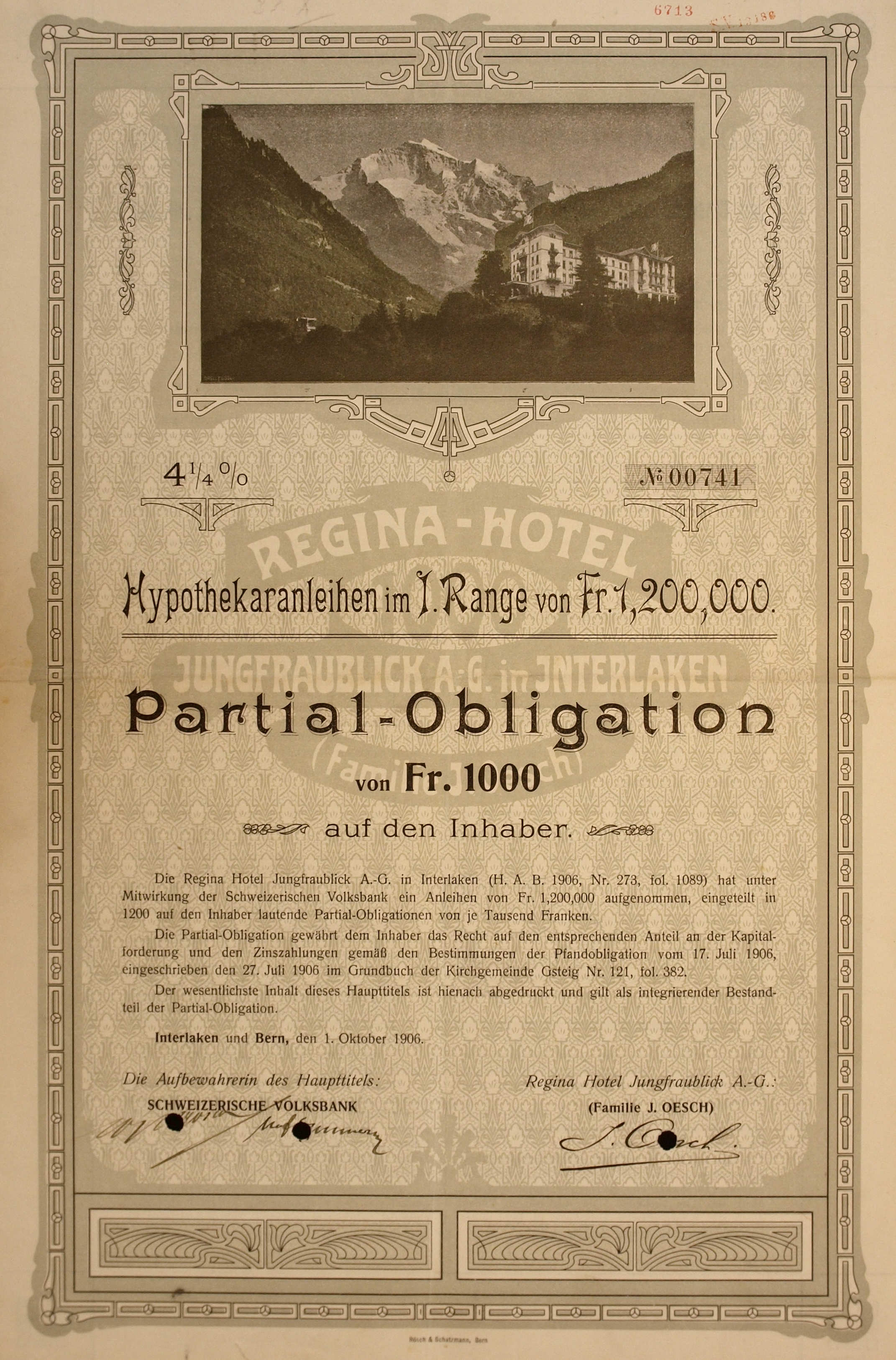 Bond of the Regina-Hotel Jungfraublick AG, issued 1. October 1906